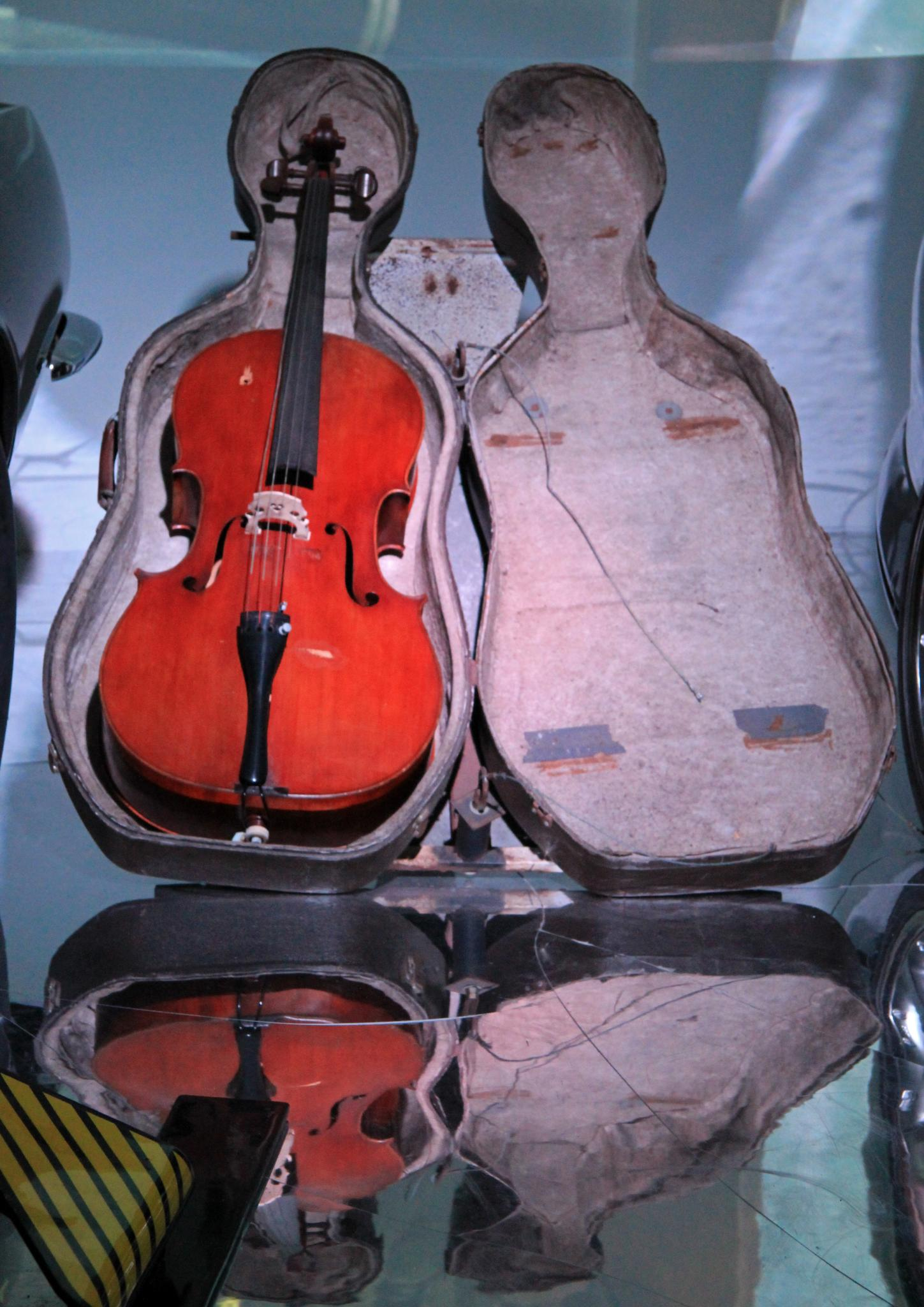 BOND in MOTION 50 Vehicles. 50 Years The Living Daylights - Timothy Dalton Cello Case Sled With his car disabled, Bond has to think quickly in order that he and Kara can escape the Police during the movie The Living Daylights. The cello case makes an ideal sled for them as they race downhill evading their pursuers. The World of James Bond 007 is full of action, excitement, drama and danger. The high octane, all action car and vehicle chases are at the heart of the Bond franchise. There is unique story behind every vehicle and every death defying stunt culminates in the exhilarating screen image. From speed boats leaping roads and cars submerging to exotic locations, ranging from tropical islands to the North Pole the action never ceases. Vehicles with gadgets and armouries add to the thrills with Bond having to be ever more resourceful in his battles with the increasingly technical and sophisticated villains. BOND in MOTION is the story of the vehicles that keep the man behind the wheel moving and how the thrill a minute chase sequences pushed man and machine to the limit. This new exhibition to Beaulieu is the world's largest official collection of original James Bond vehicles, on display for 2012 only, featuring 50 vehicles from the Bond films. With fifty vehicles on display, BOND IN MOTION is the largest official collection of original Bond vehicles the world has ever seen. On display until the 6th January 2013 at the National Motor Museum, this could be your only chance to see these vehicles on display together. 2012 marks the 50th anniversary of the James Bond film series and the 40th anniversary of the National Motor Museum (and the 60th anniversary of Beaulieu opening its doors to the public) and what better way to celebrate than with the biggest exhibition of James Bond vehicles ever staged? Cars used in films starring Sean Connery, George Lazenby, Roger Moore, Timothy Dalton, Pierce Brosnan and Daniel Craig all feature in the exhibition.